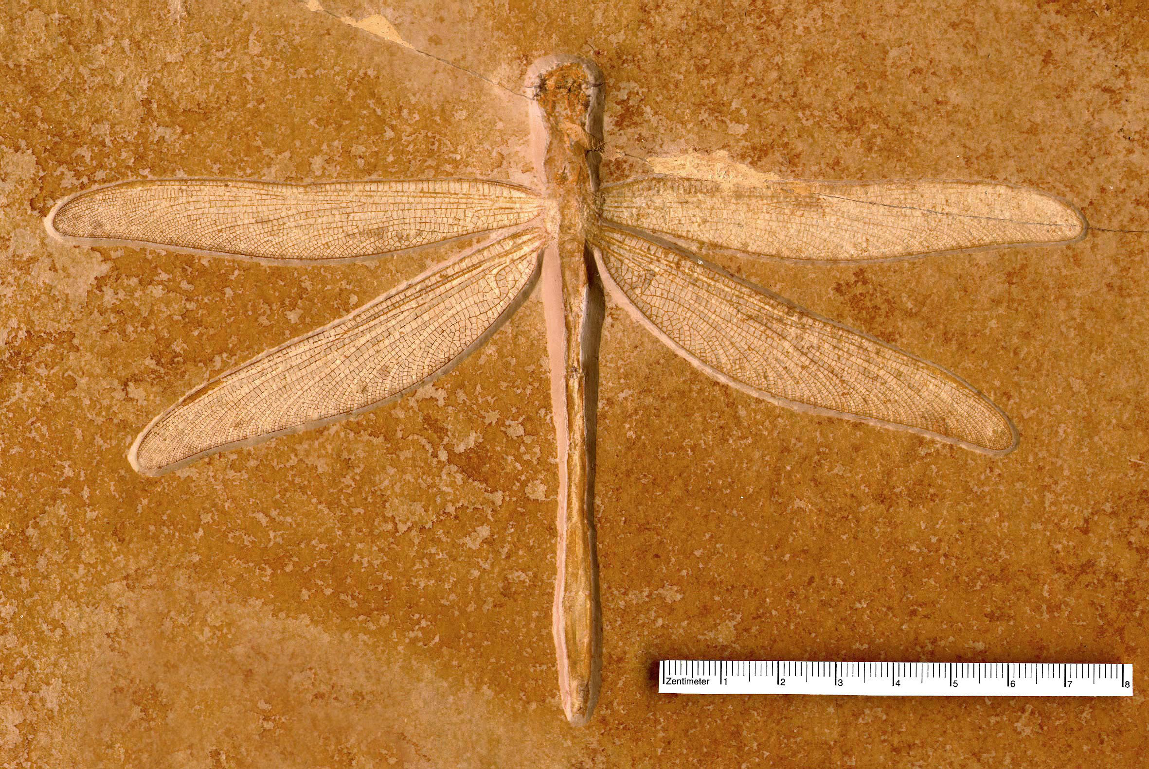 Stenophlebia amphitrite (Odonata: Stenophlebiidae), Upper Jurassic, Solnhofen Plattenkalk, in private collection Dieter Kümpel (Wuppertal), specimen 4D